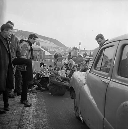 First protest by Cymdeithas yr Iaith Gymraeg on Trefechan Bridge, Aberystwyth.